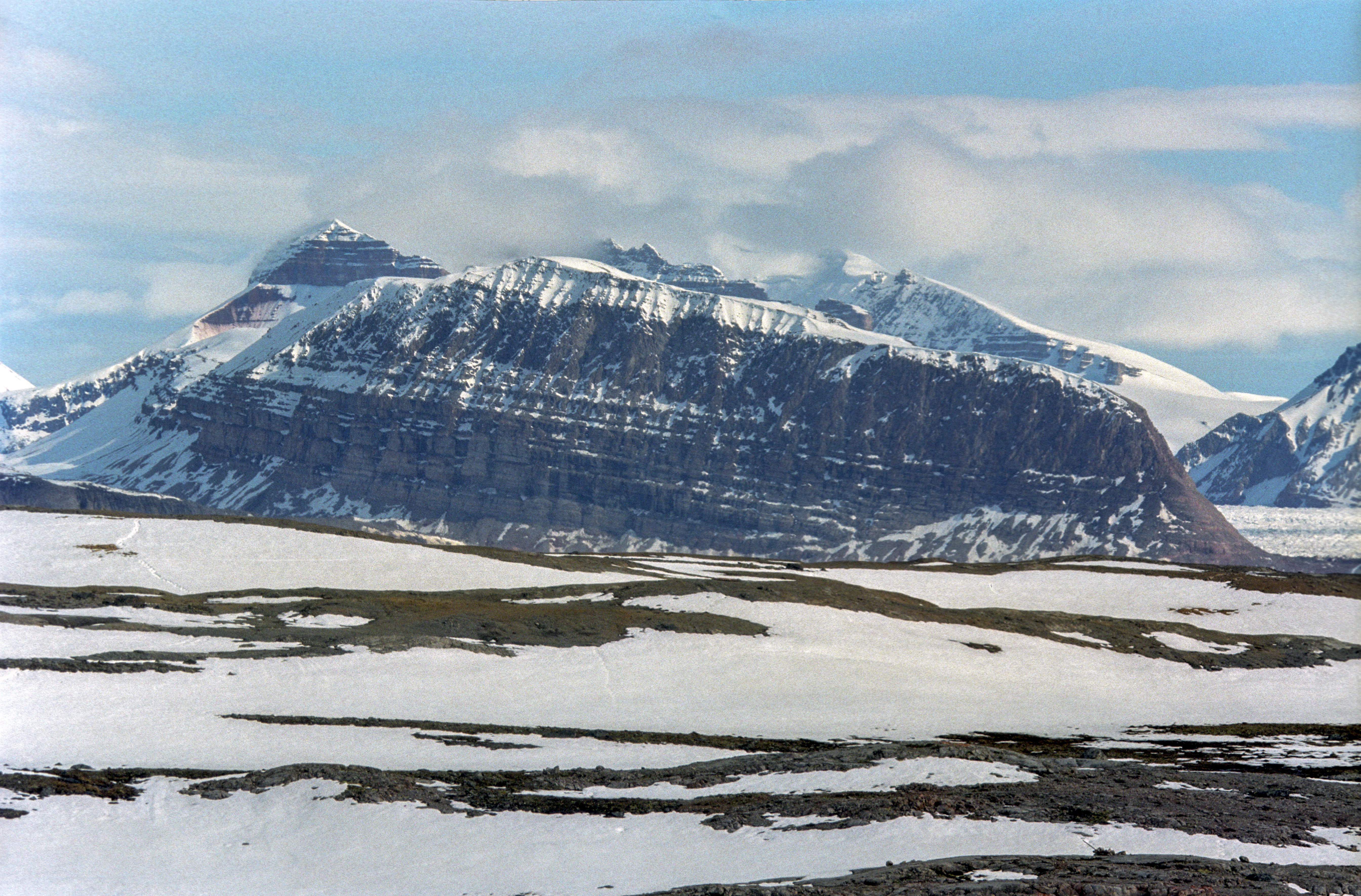 spitsbergen, view from Blomstrandhalvøya peninsula (by Ny-London) towards the Colletthøgda mountain in the background